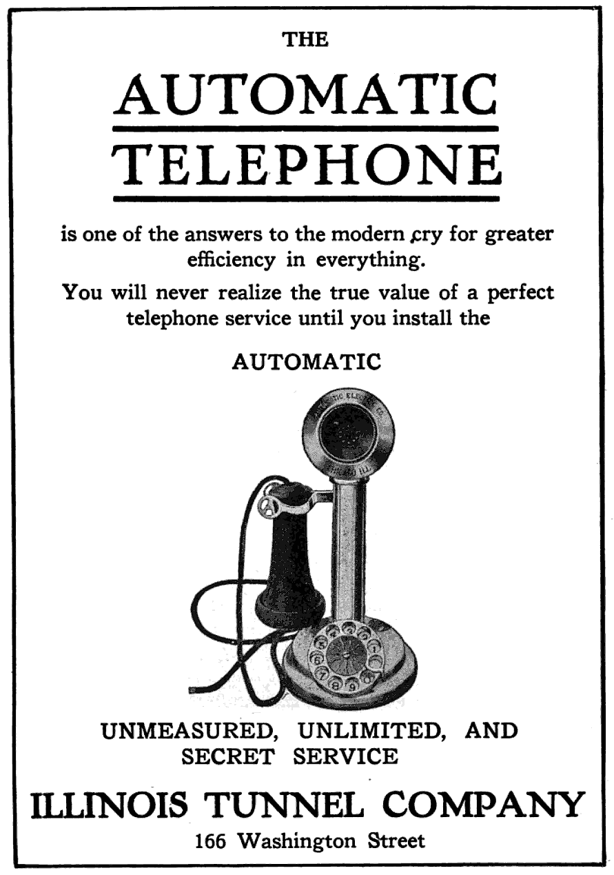 Advertisement for the automatic (dial) telephone service of the Illinois Tunnel Company in Chicago.